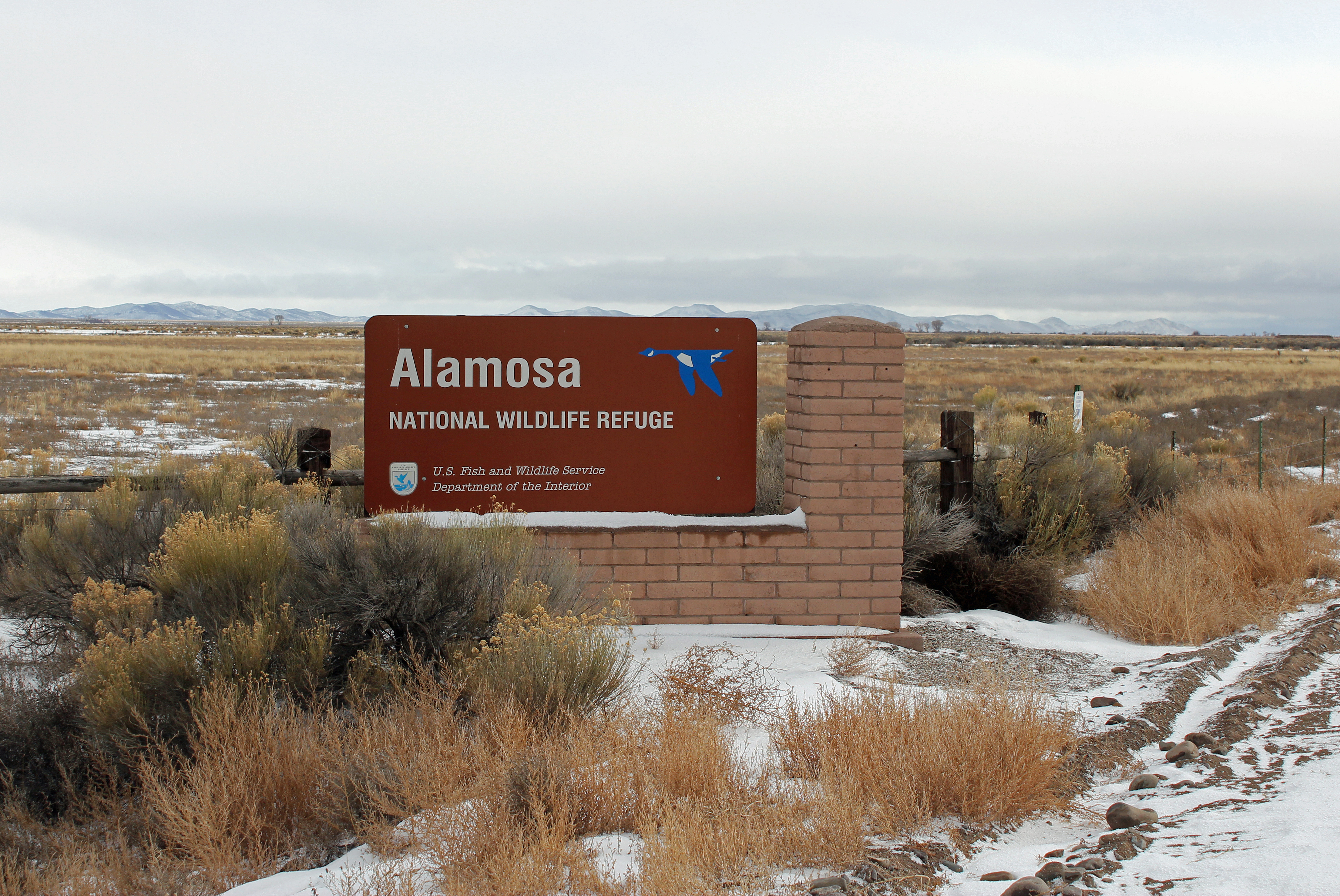 The sign for the Alamosa National Wildlife Refuge, located on El Rancho Lane in Alamosa County, Colorado, southeast of Alamosa. The view is to the southeast.